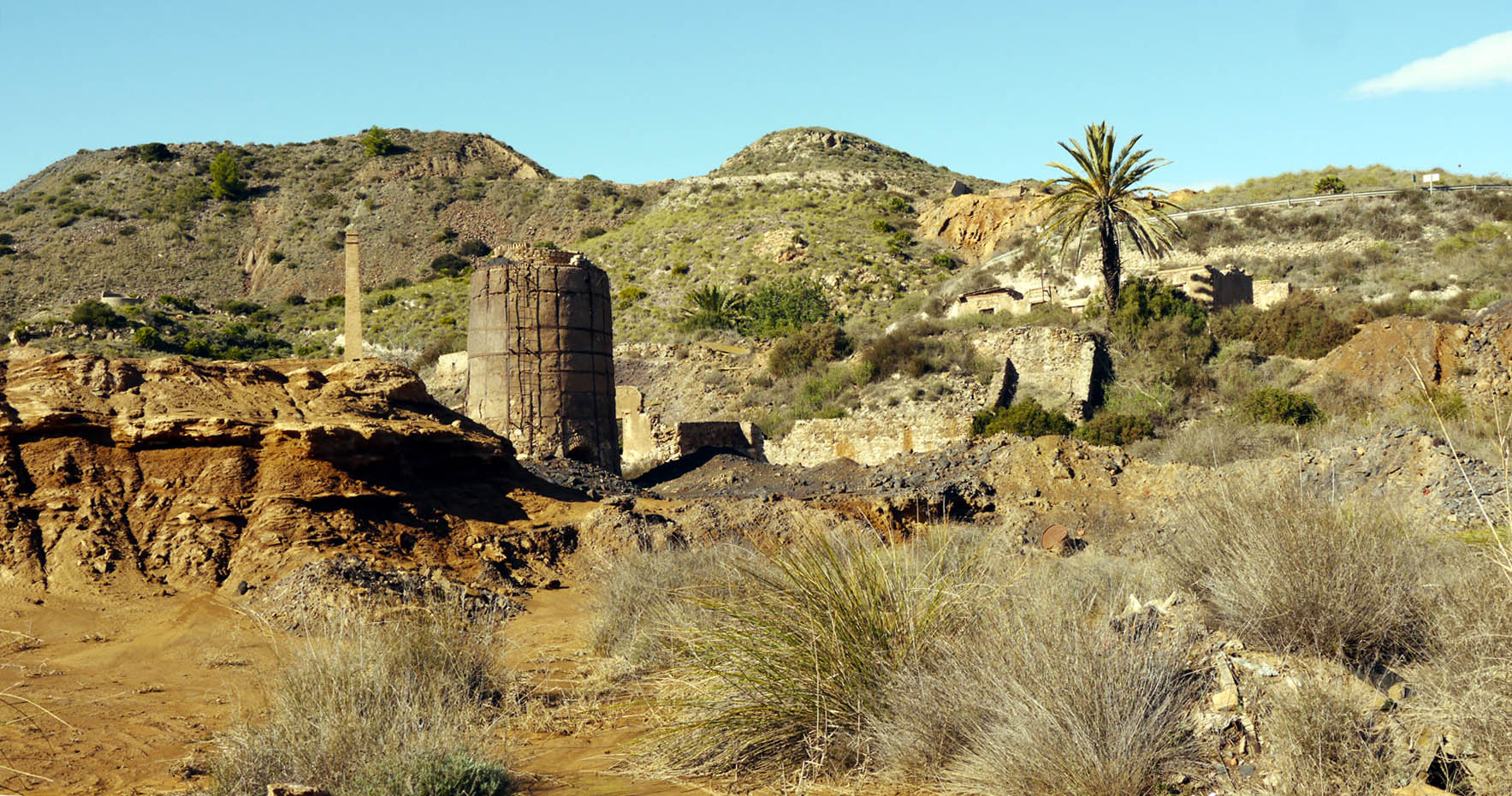 The ruins of "Mina Inocente", a XIX century mine in Cartagena.